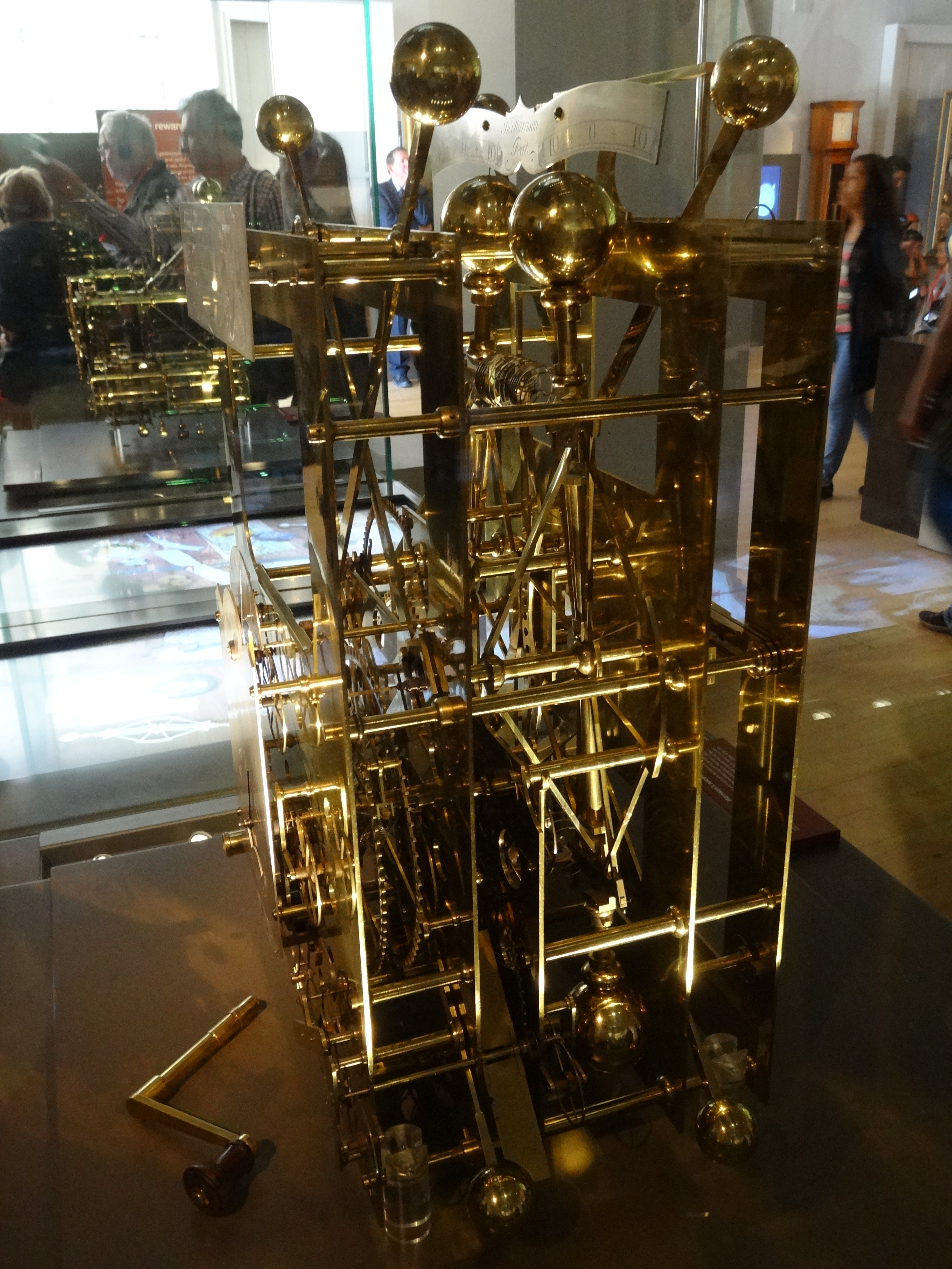 From the Longitude tour, with thanks to the Natonal Maritime Museum for allowing photography